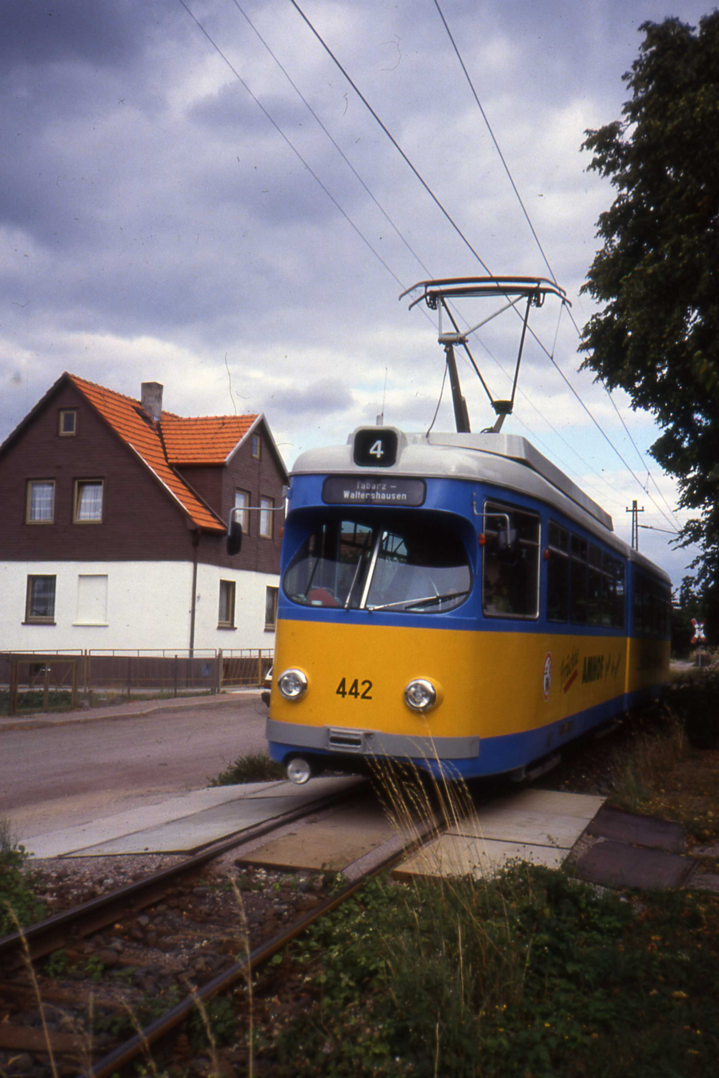 1967 Duewag GT6 tram nr 442 shortly after its arrival in Gotha from Mannheim, still with white on black destination blinds. It survives in service along with a few others. The first batch obtained from Mannheim comprised , in 1991, 396,401, 408 412, 442 443. Some others arrived later. Only 396 and 442 remain in regular service from this first intake, as here Wikipedia page for the Thüringerwaldbahn here.